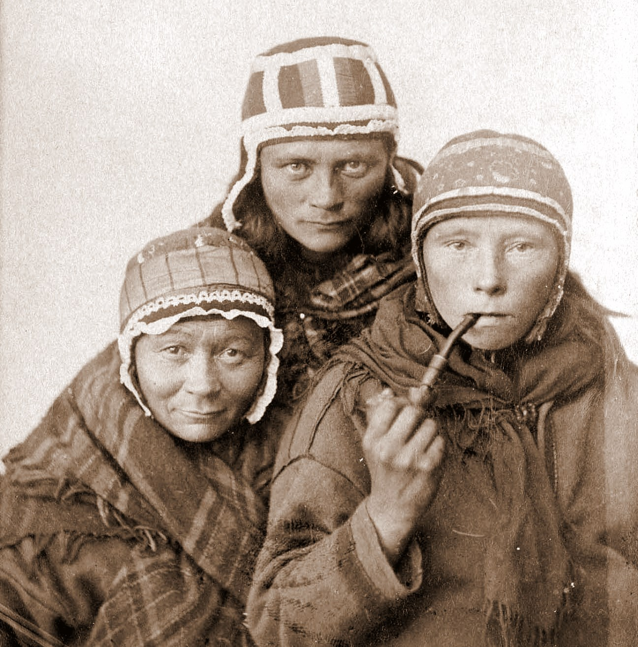 albumen print of hree Sámi (Lapp) women, one smoking a pipe, wearing their traditional caps